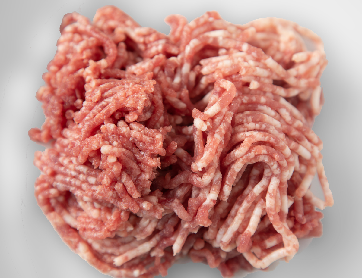 Lamb mince, minced meat of lamb